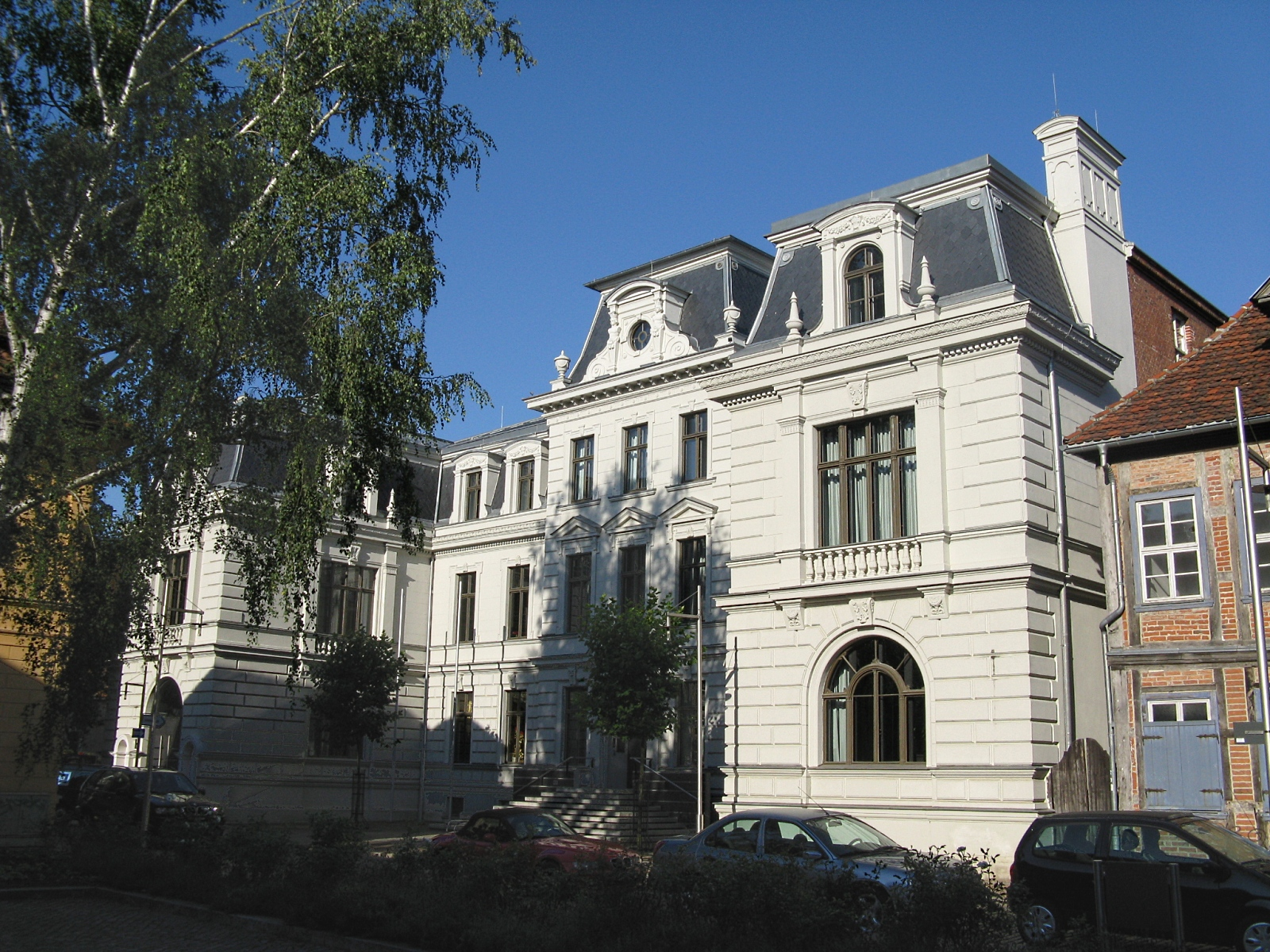 Neustädtisches Palais in Schwerin, Germany - Mecklenburg-Vorpommern ministry of justice